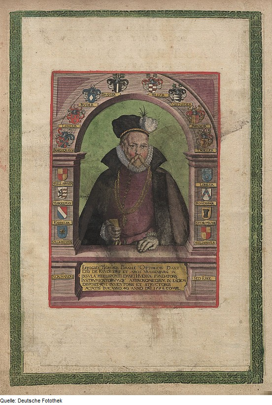 Original image description from the Deutsche Fotothek Astronom & Porträt